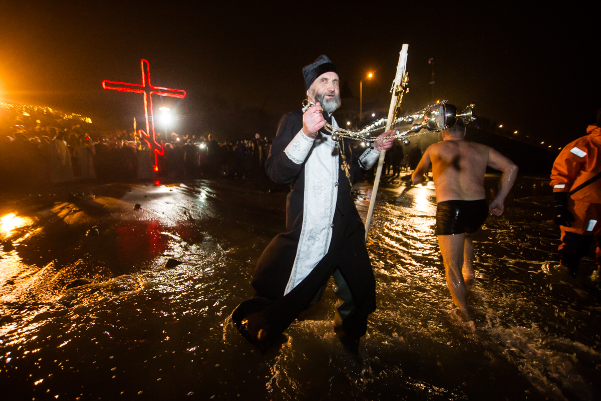 Vodokreschi in Kaliningrad 2017-01-19